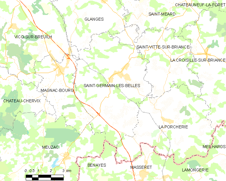 Map of French municipality Saint-Germain-les-Belles